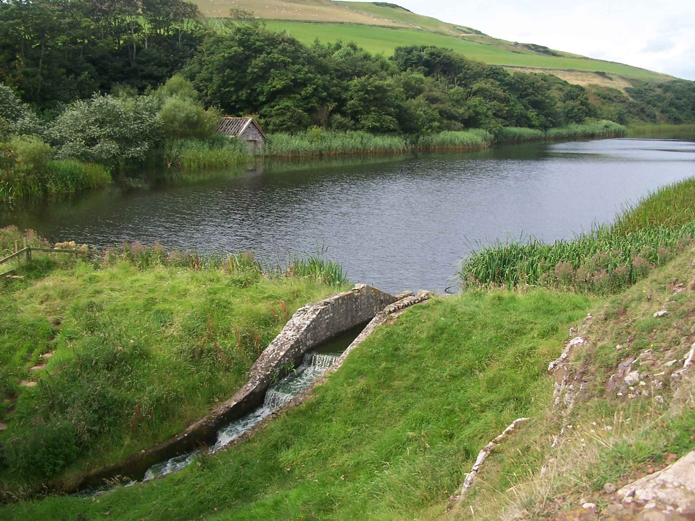 The stepped outflow of Mire Loch on St. Abb's Head